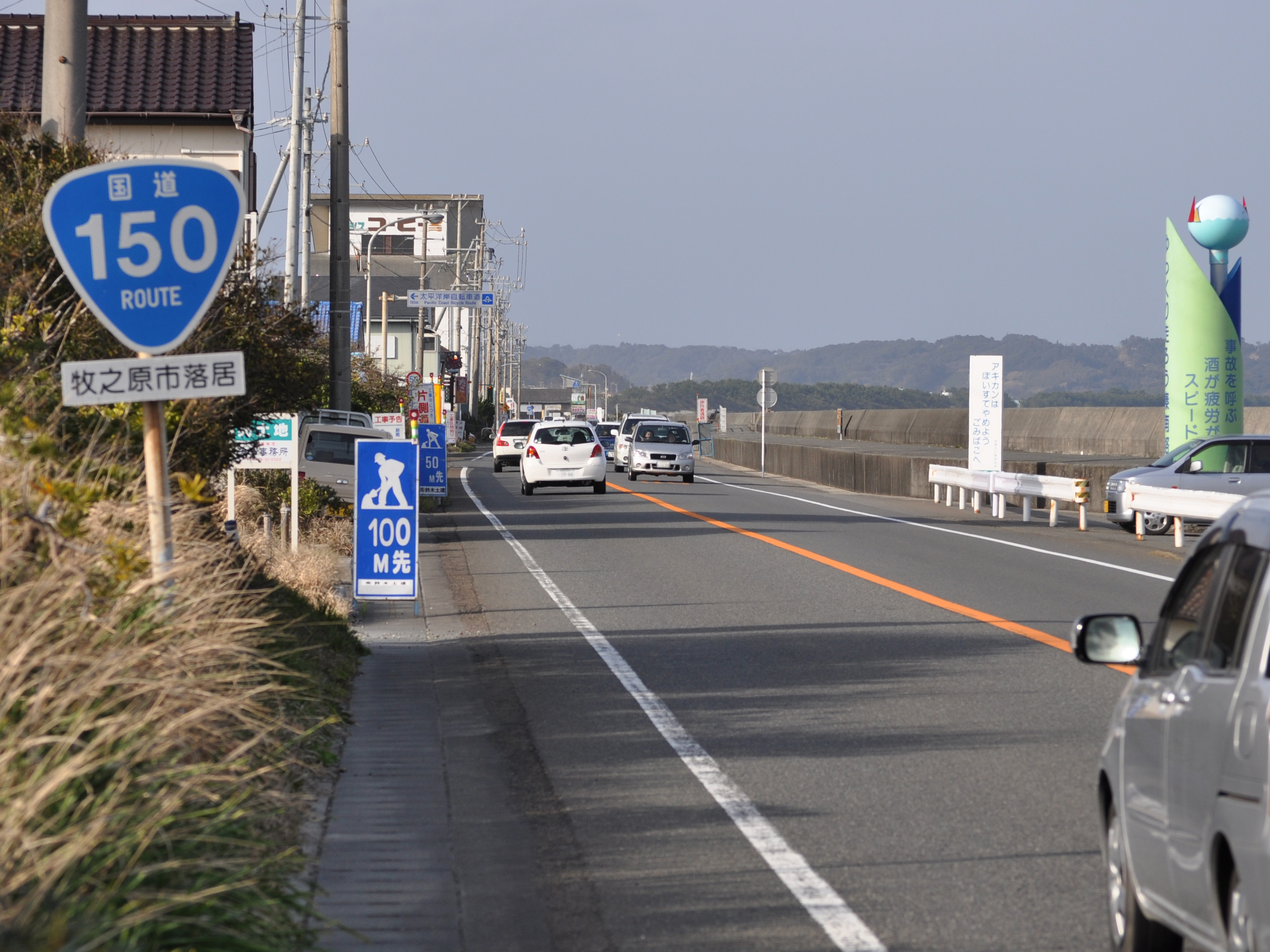 View of Route 150 passing through Makinohara, Shizuoka, Japan.